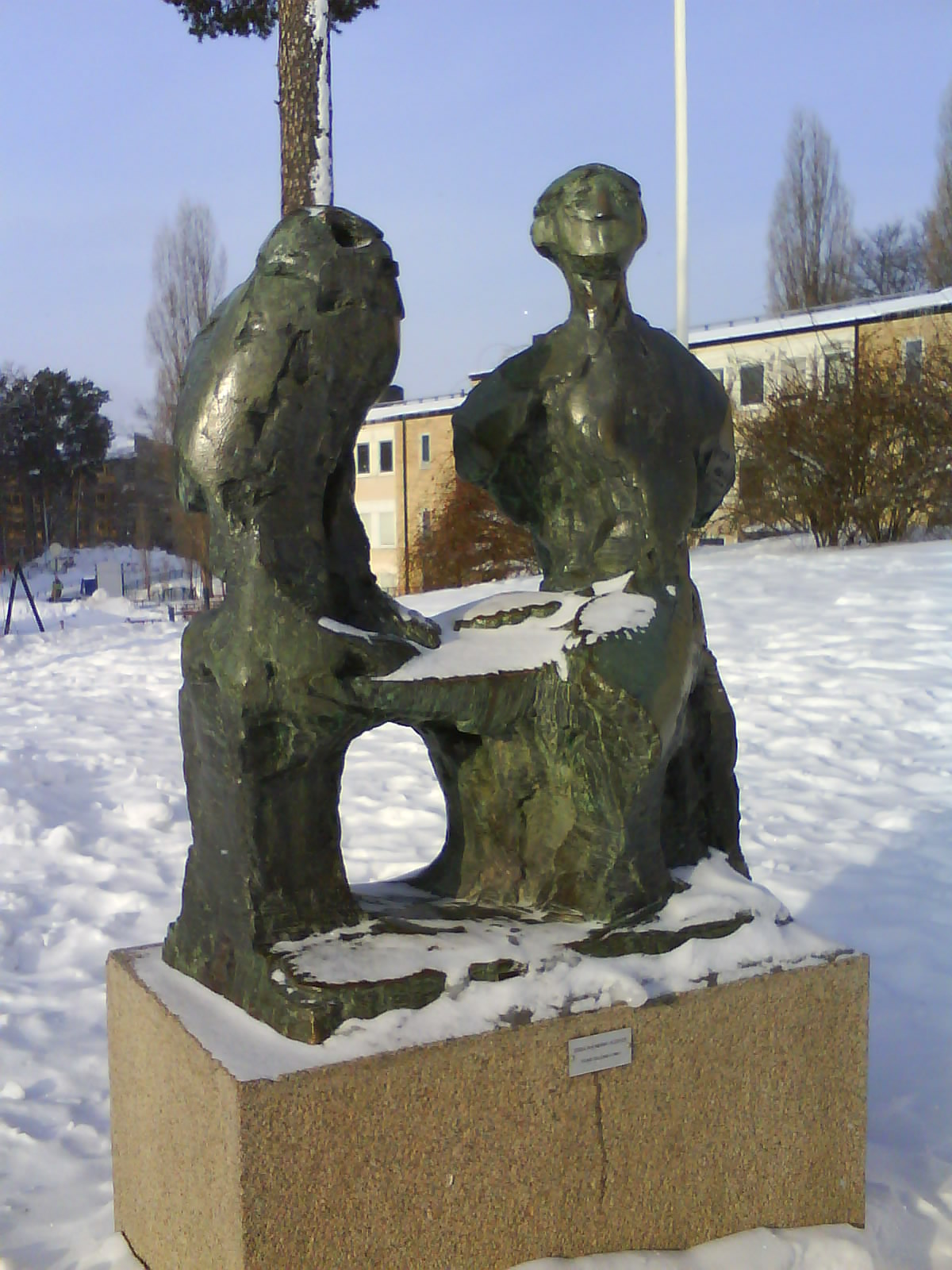 Ebba Ahlmark-Hughes´ Boy and owl´´, Bergshamraskolan, Stockholm